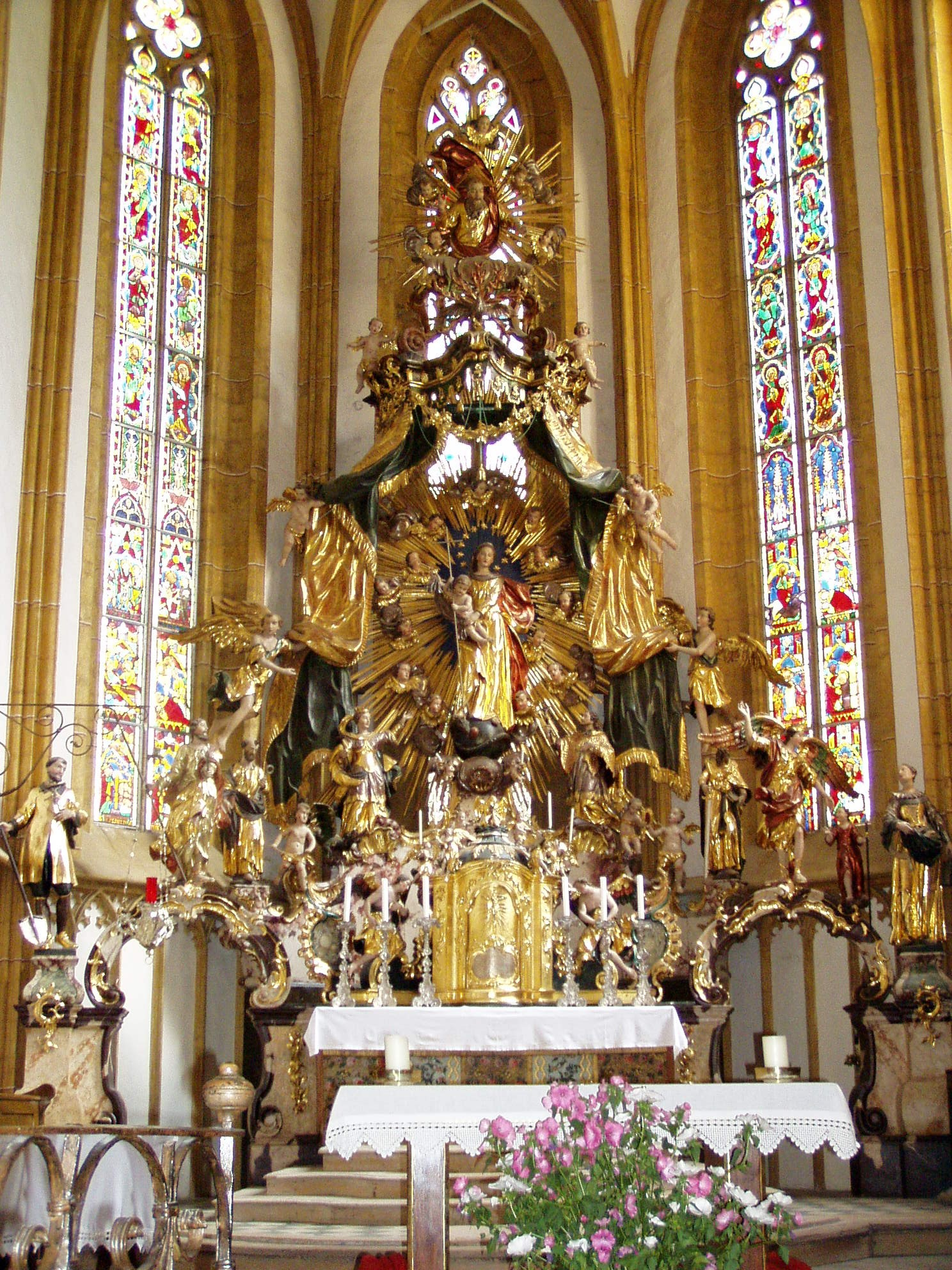 Lieding, parish church St. Margaretha/Lieding Pfarrkirche hl. Margaretha, Hochaltar